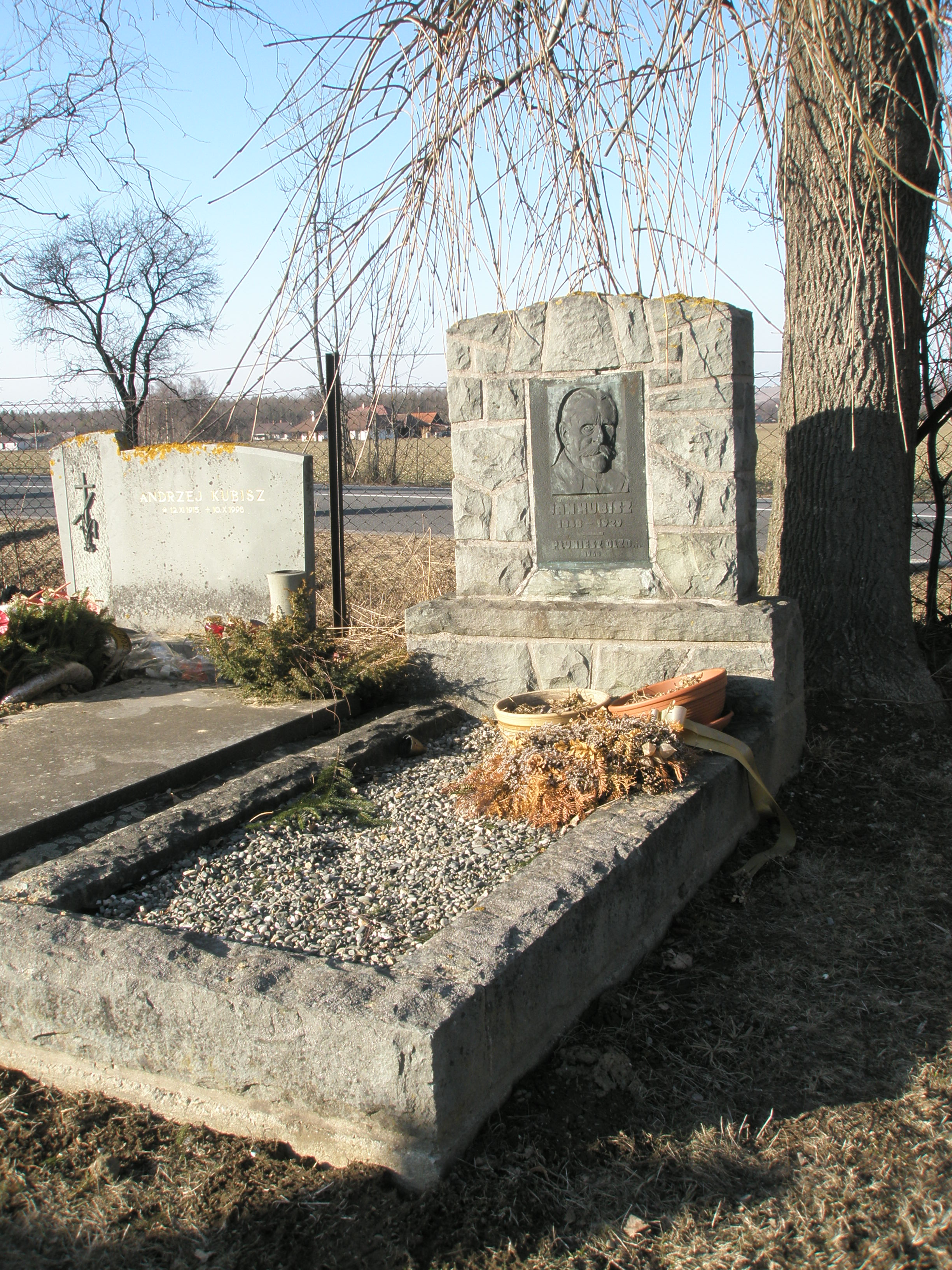 Grave of Polish teacher Jan Kubisz